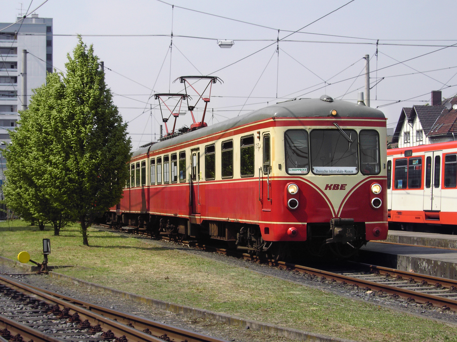 Historic EMU ET57 formerly of the Cologne-Bonn Railways (KBE)